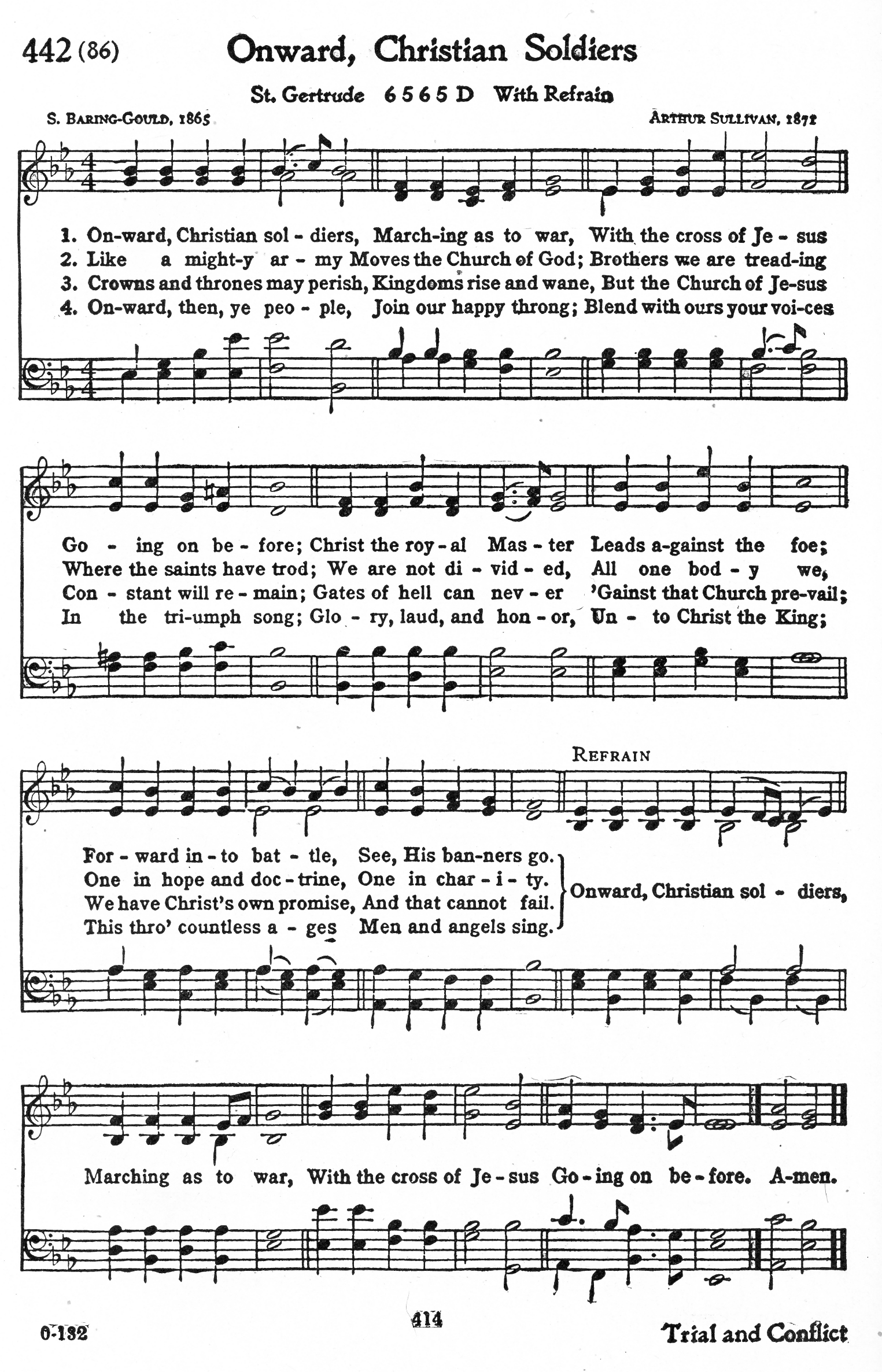 "Onward, Christian Soldiers" by Sabine Baring-Gould (Words, 1865) and Arthur Sullivan (music, 1872).